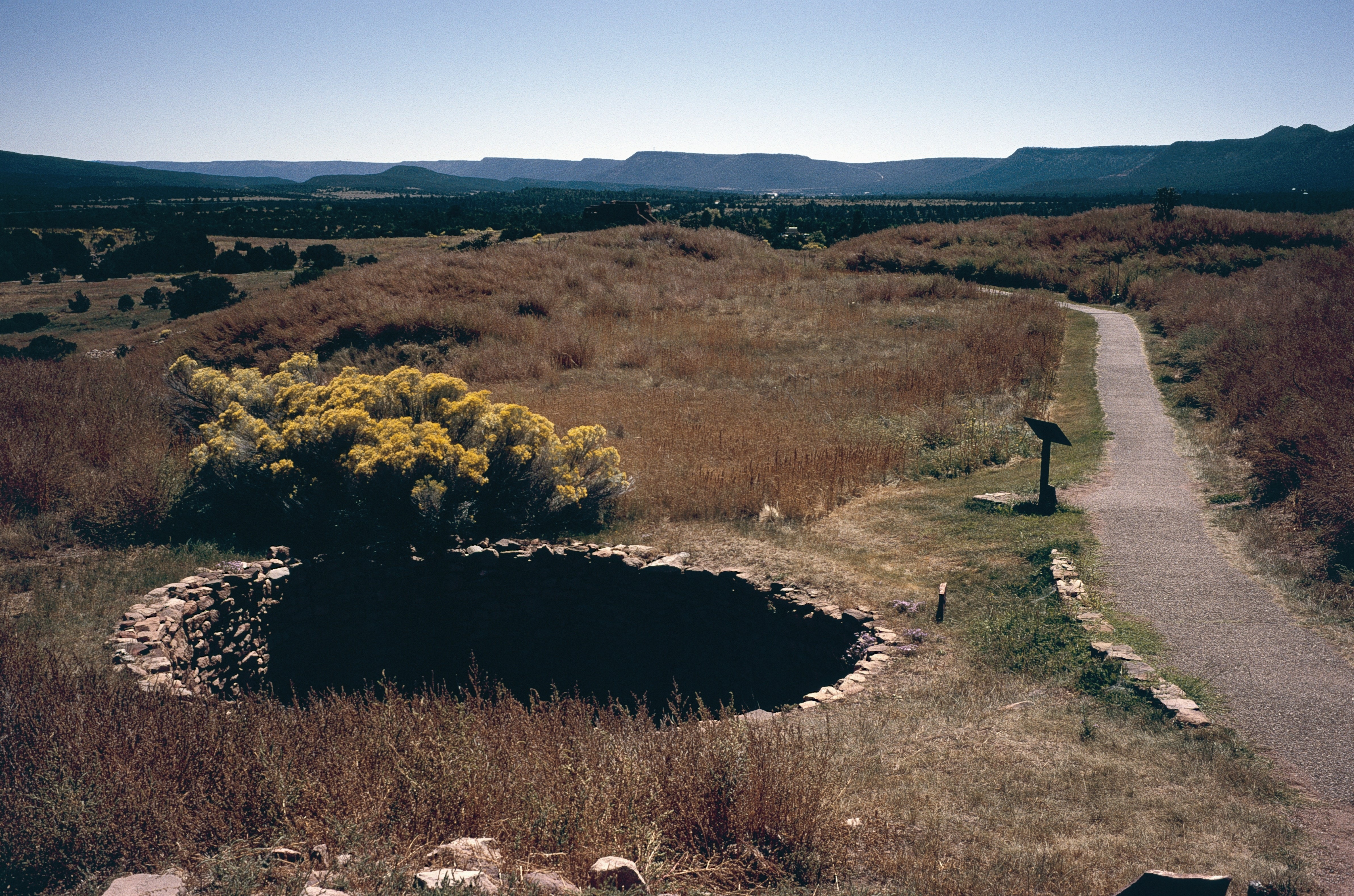 Pecos Pueblo, New Mexico, Kiva in the pueblo